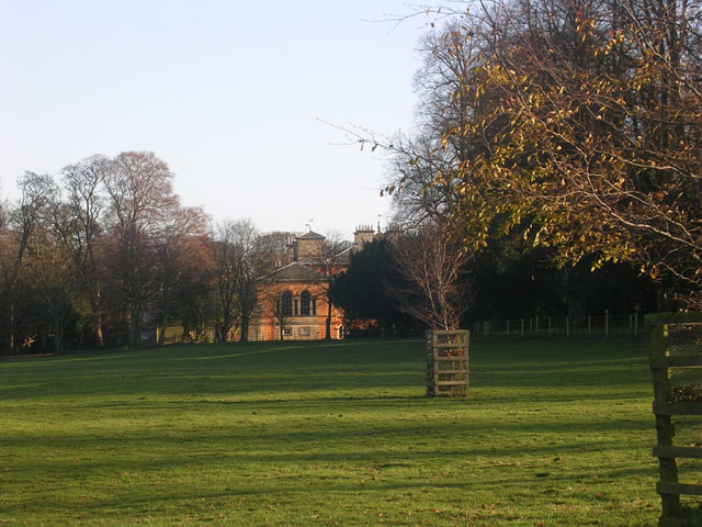 Rokeby Hall, near Barnard Castle. The "Rokeby Venus", the famous nude by Velazquez, was so-called because it hung in Rokeby Hall until acquired by the National Gallery in 1906.